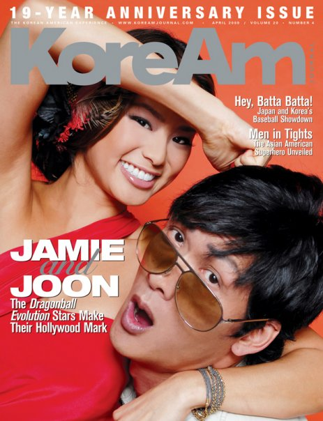 Magazine cover of KoreAm from April 2009; Jamie Chung and Park Joon Hyung